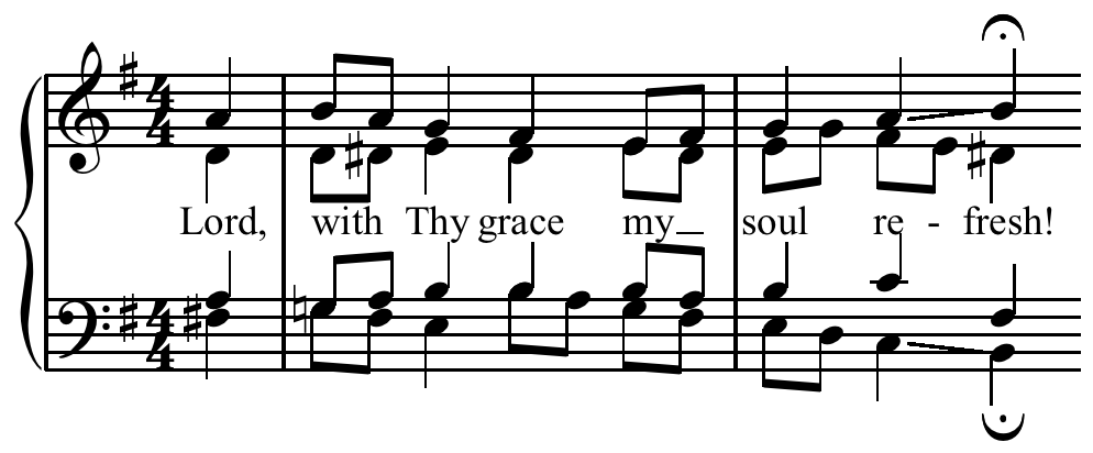 Phrygian cadence in Bach's Schau Lieber Gott Chorale.